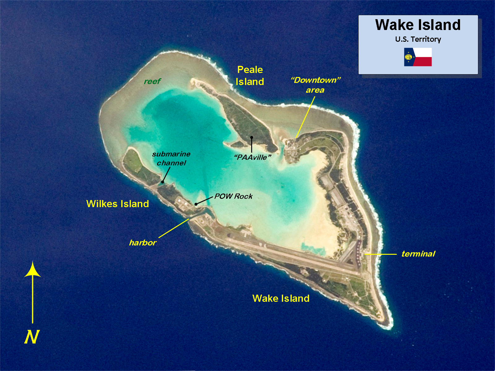 Wake Island map overlaying a enhanced astronaut photograph taken from ISS Expedition 33 on September 27, 2012